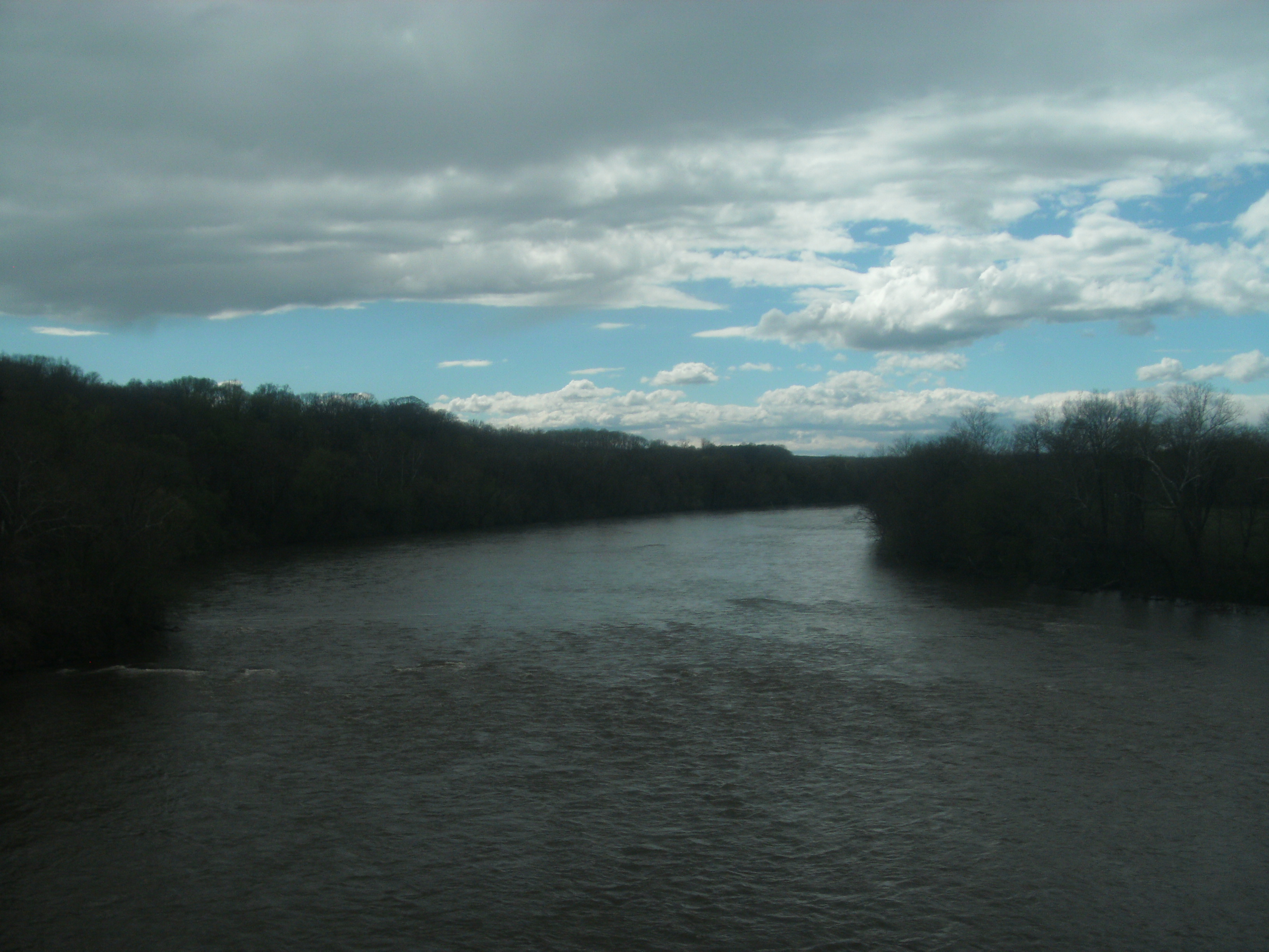 James River at Fluvanna and Buckingham Counties, Virginia. The Seven Islands Archaeological and Historic District, listed on the National Register of Historic Places, is located in the vicinity.